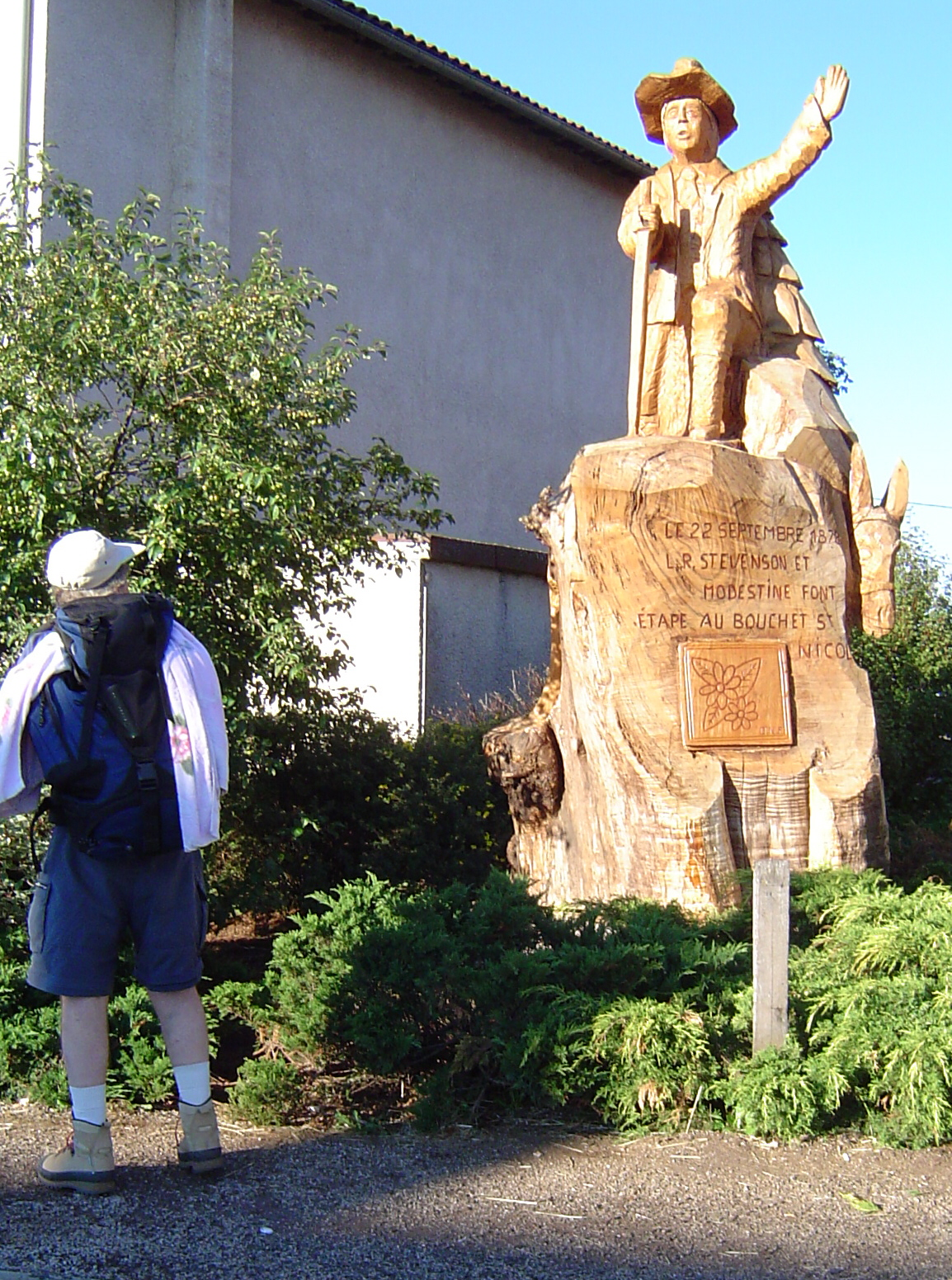 Memorial Stevenson path, Le Bouchet Saint-Nicolas, Cevennes (Fr)